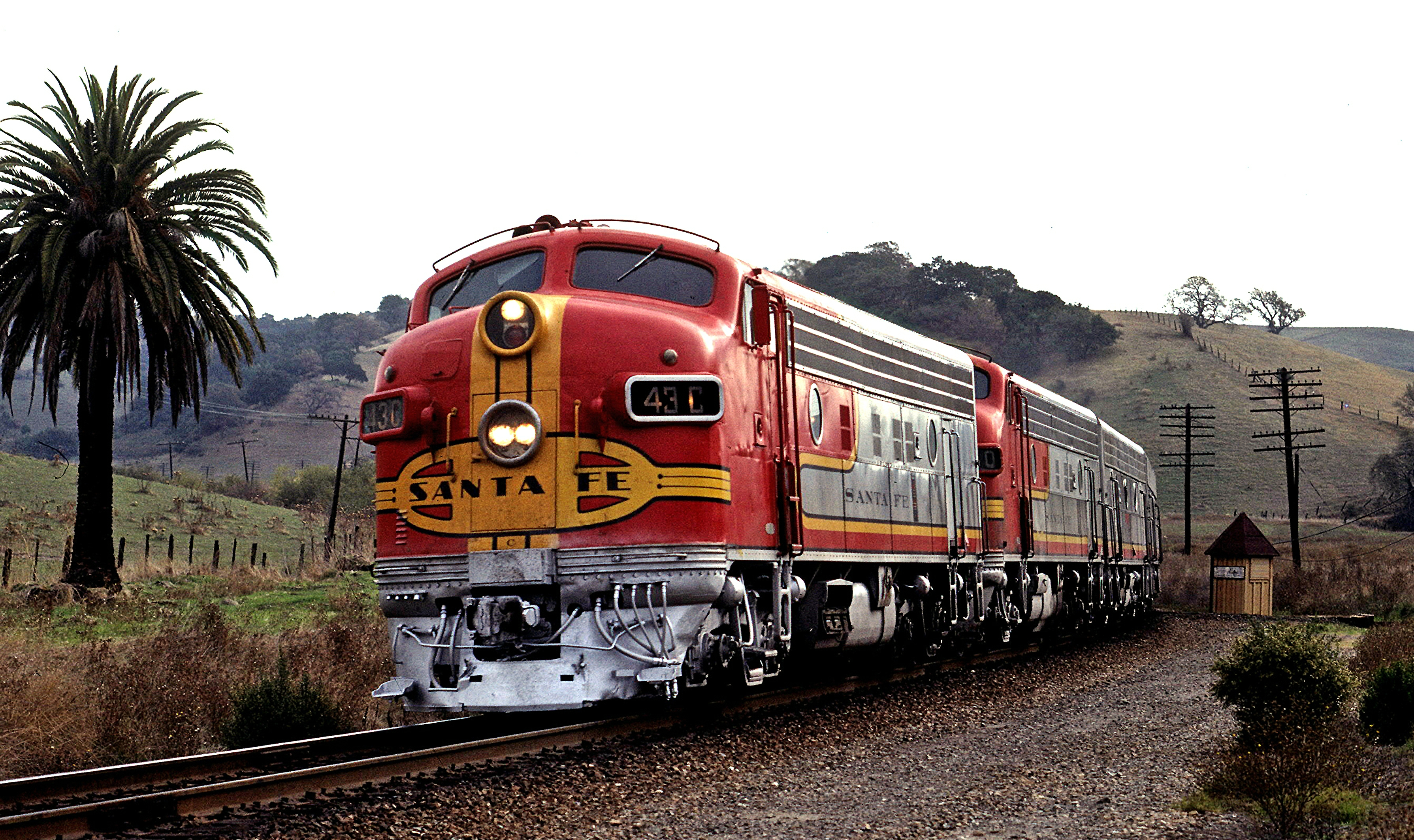 May 1973, a post-Amtrak San Diegan heading South near Miramar